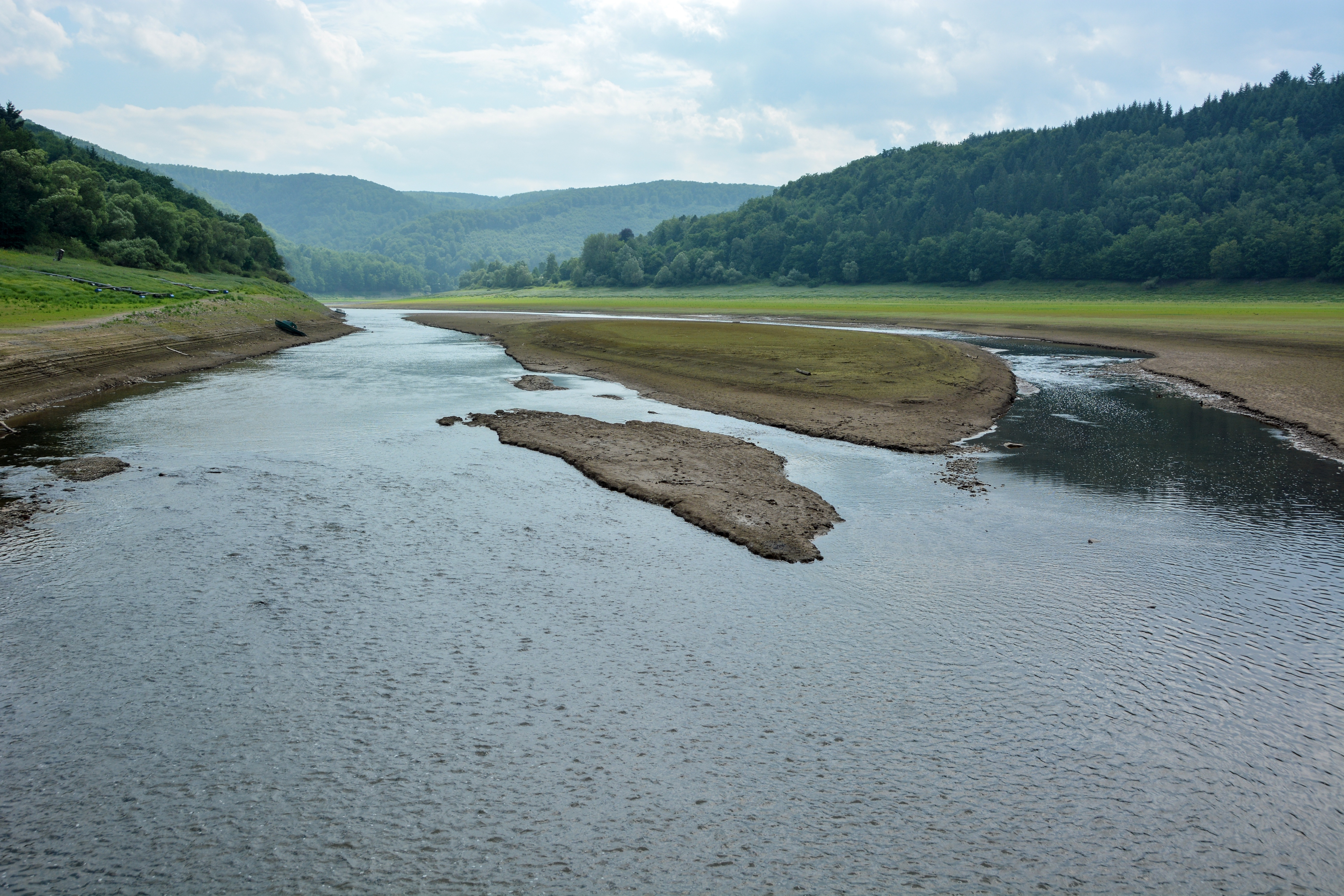 View from Bridge of Asel, inside Eder Lake, in Summer at low water level, onto the river Eder.